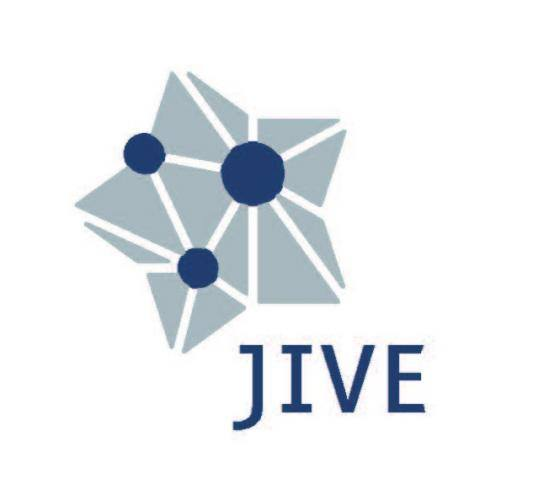 Logo for JIVE organization